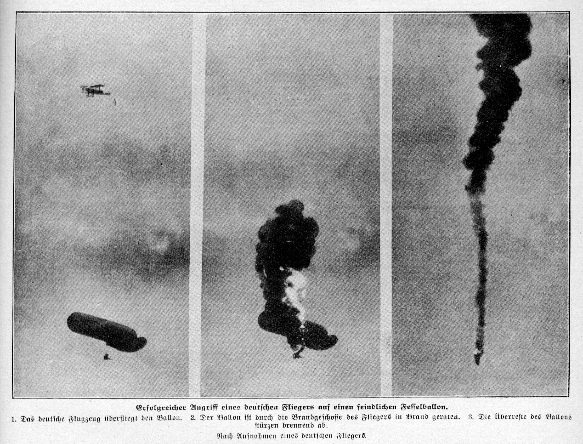 This sequence of three subsequent images by an unknown German WW I pilot shows a biplane shooting successfully at a tethered "kite" observation balloon flying below. The photos appeared in the leading German WW I magazine in 1918. The photo is undated but probably - and like most photos in the magazine - pretty current, i.e. from 1918.